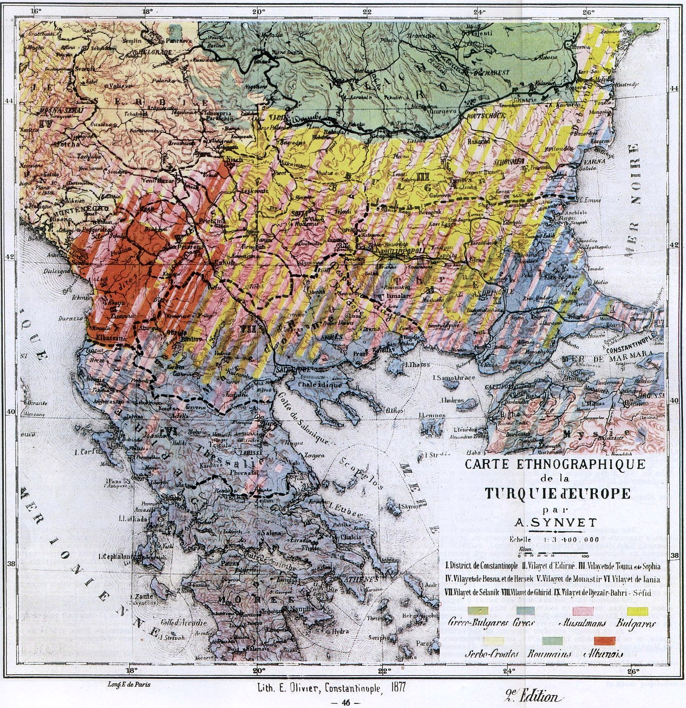 Ethnological map of the Balkans of 1877